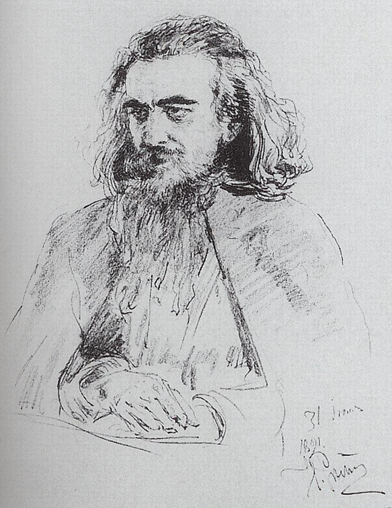 Portrait of philosopher, poet and literary critic Vladimir Sergeyevich Solovyov. Pencil on paper. 34.3 × 23.6 cm. Isaak Izrailevich Brodsky flat Museum, St. Petersburg.